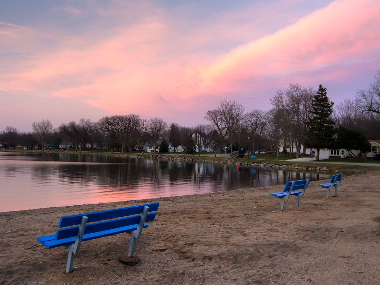 Strolled around Five Island Lake around sunset — Emmetsburg, Iowa. Thought the light reflected on the the clouds to the east and then on the lake was fascinating. Post-processed with Photomatix Tonemap filter to make the beach pop.